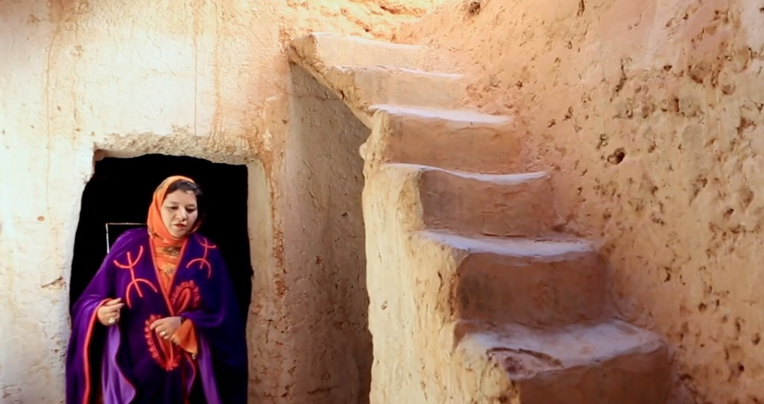 Fatima Tabaamrant Home